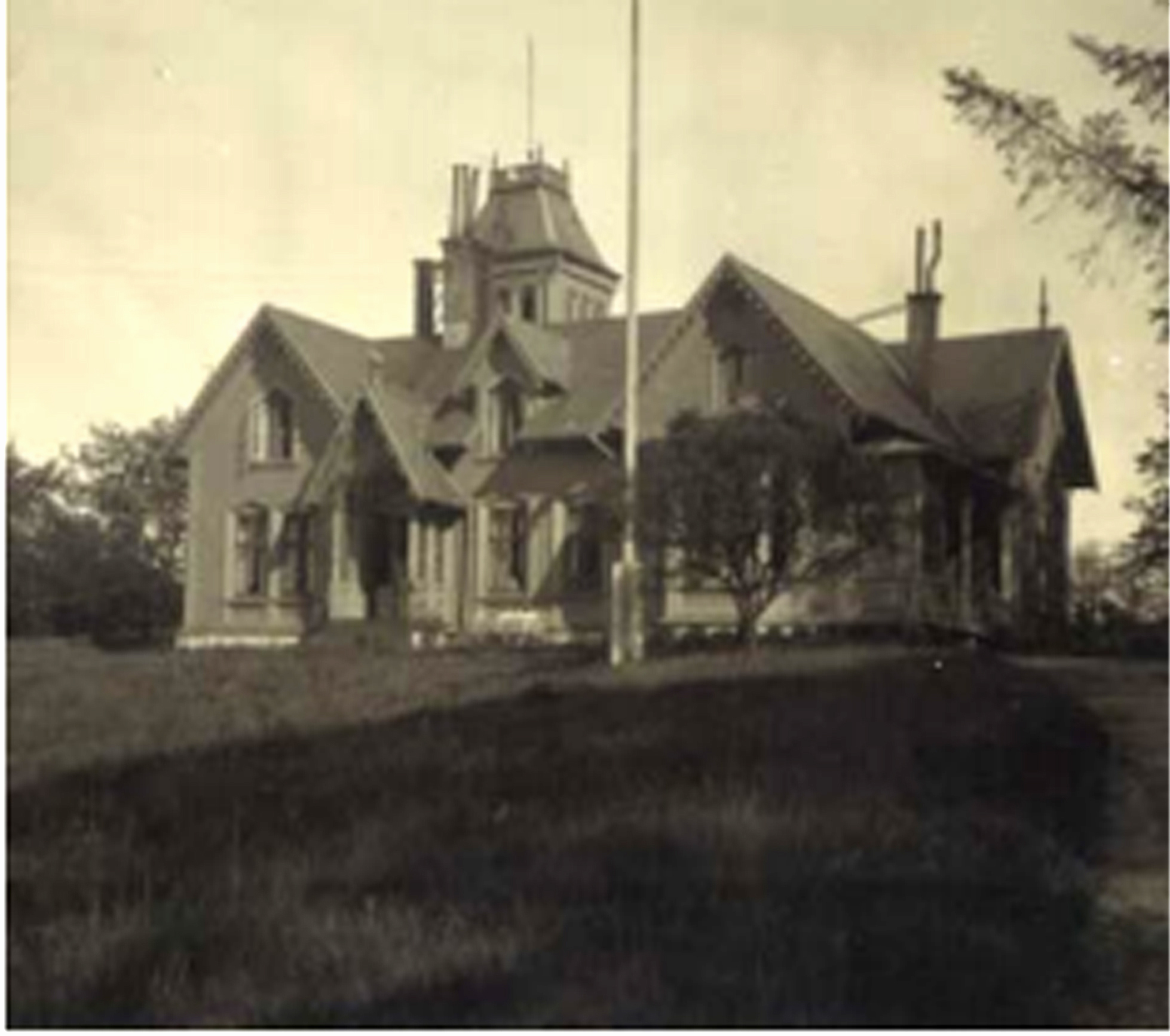 Villa Bellevue at Kvibergs landeri, gothenburg, Sweden